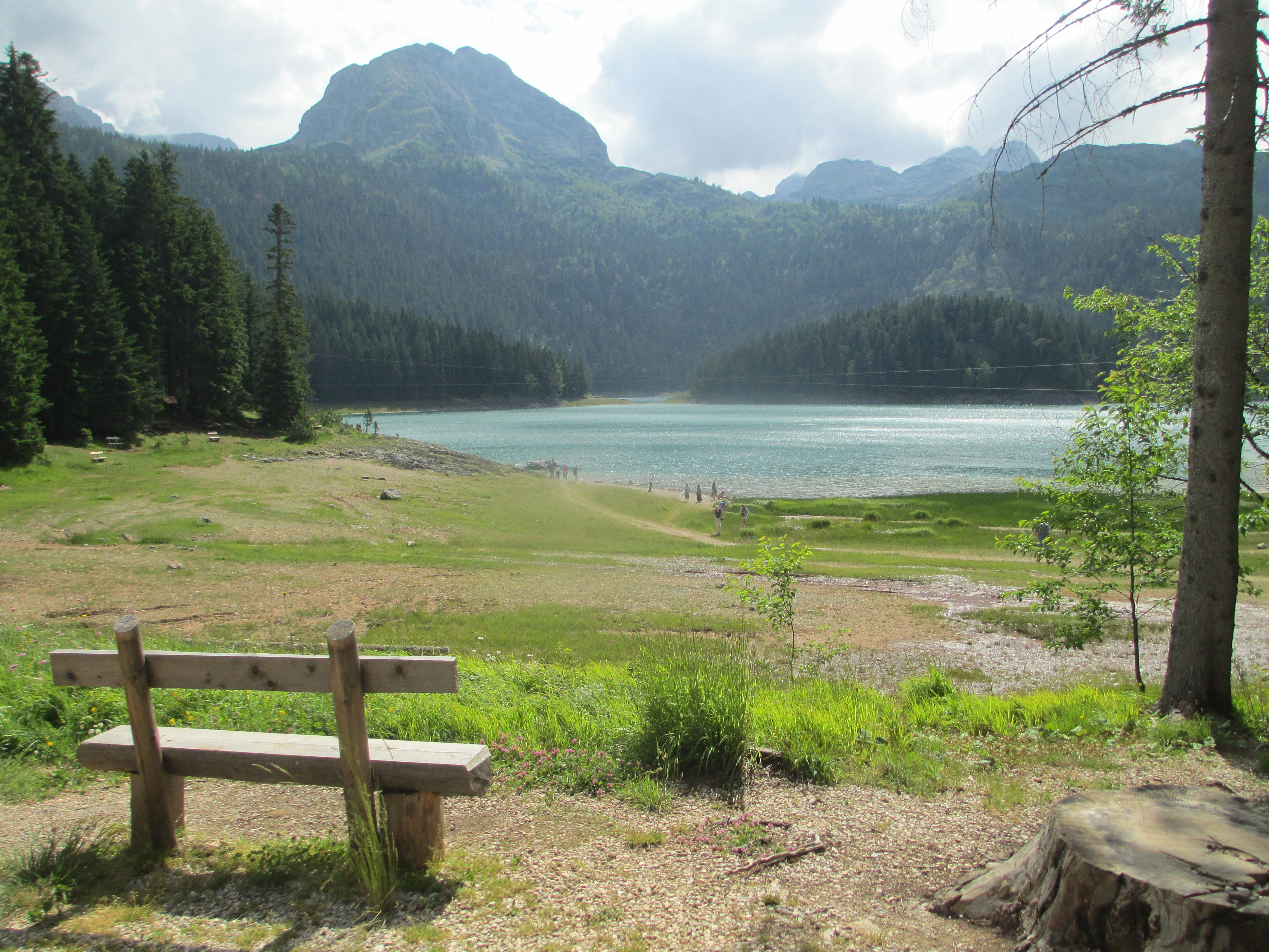 Black Lake, Montenegro